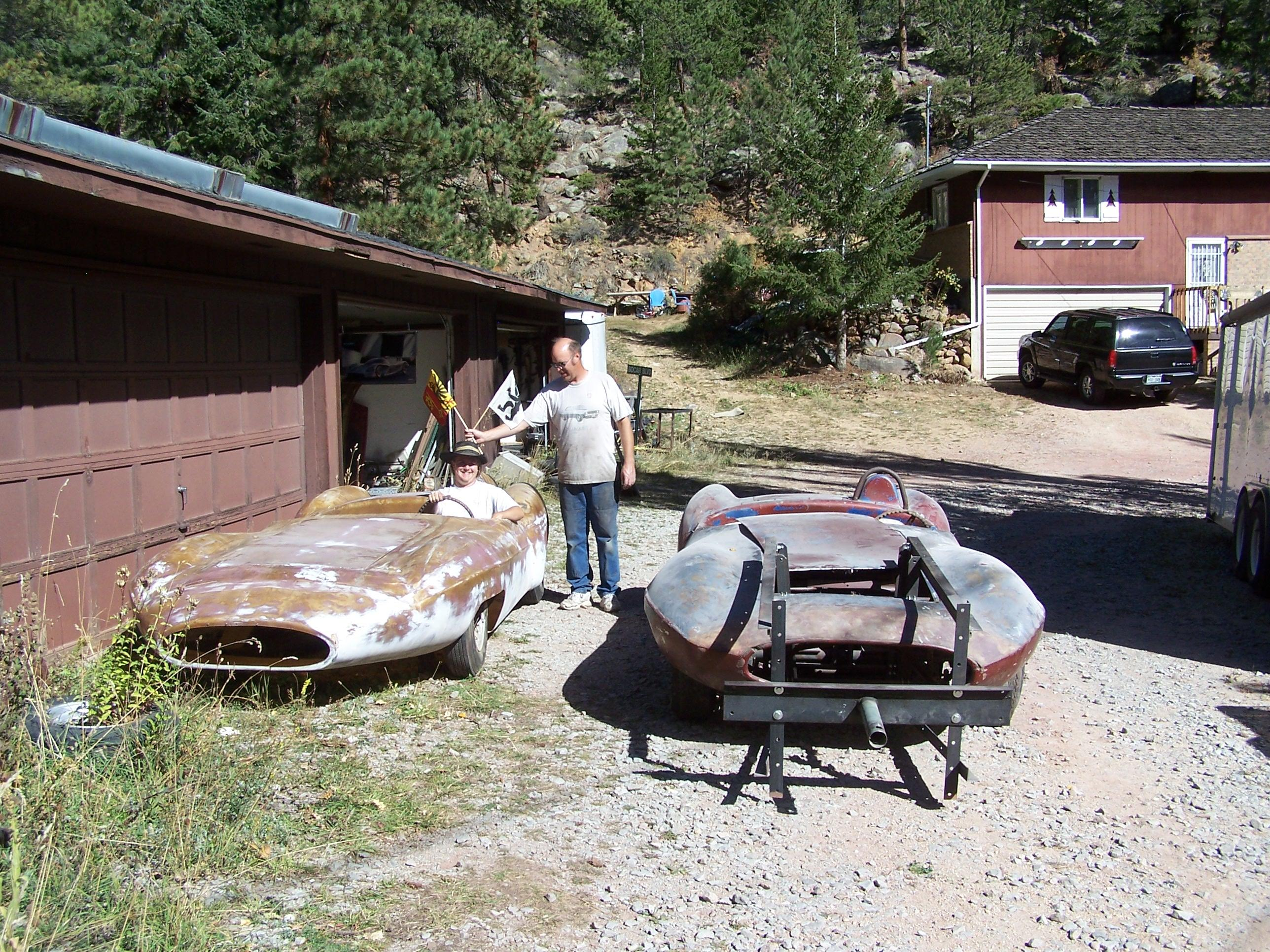 Bocar Stilettos, number 2 and 3, pre-restoration. Picture by Curley, 2007